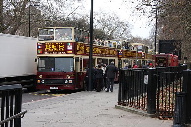 Open top sightseeing buses of The Big Bus Company, London, loading new customers at their stop in Park Lane. This is the northbound carriageway near Speaker's Corner, from here they will go around the A40 gyratory that circles Marble Arch}. Despite it being New Year's Eve, there seems to be a lot of takers for the tour. Front of the queue is No. MBO336 Olympian 3 (reg. E336 NUV), a tri-axle import from Hong Kong (see extracted image for full details).